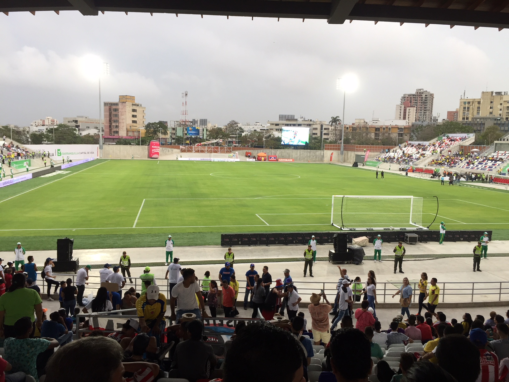 Cancha Romelio Martinez